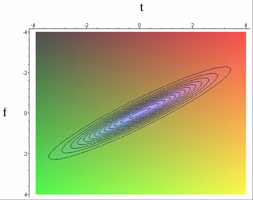 I created this myself. I created this myself.